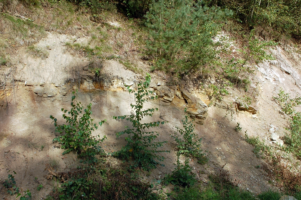 Rotliegendes, Grube Messel, near Darmstadt, Germany